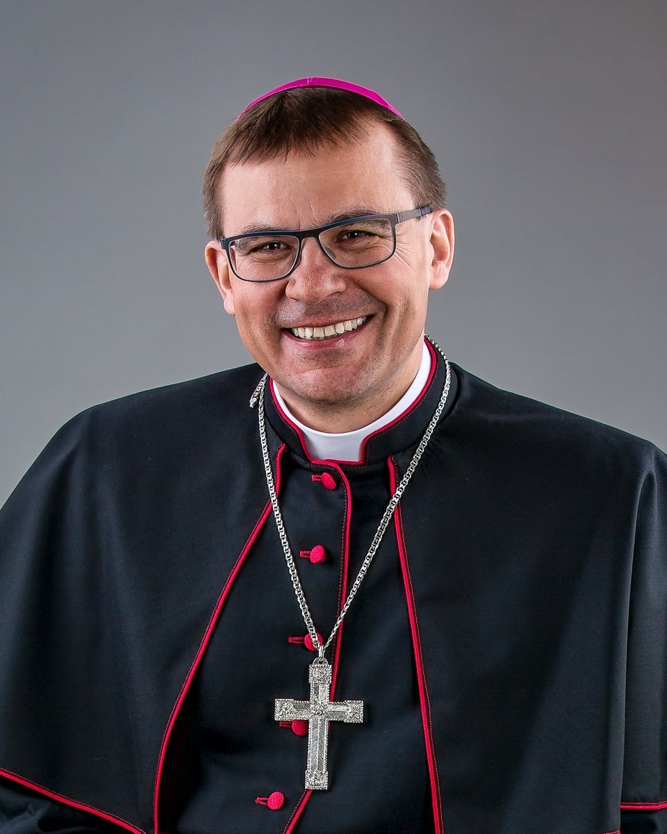 Bishop of Pilsen diocese